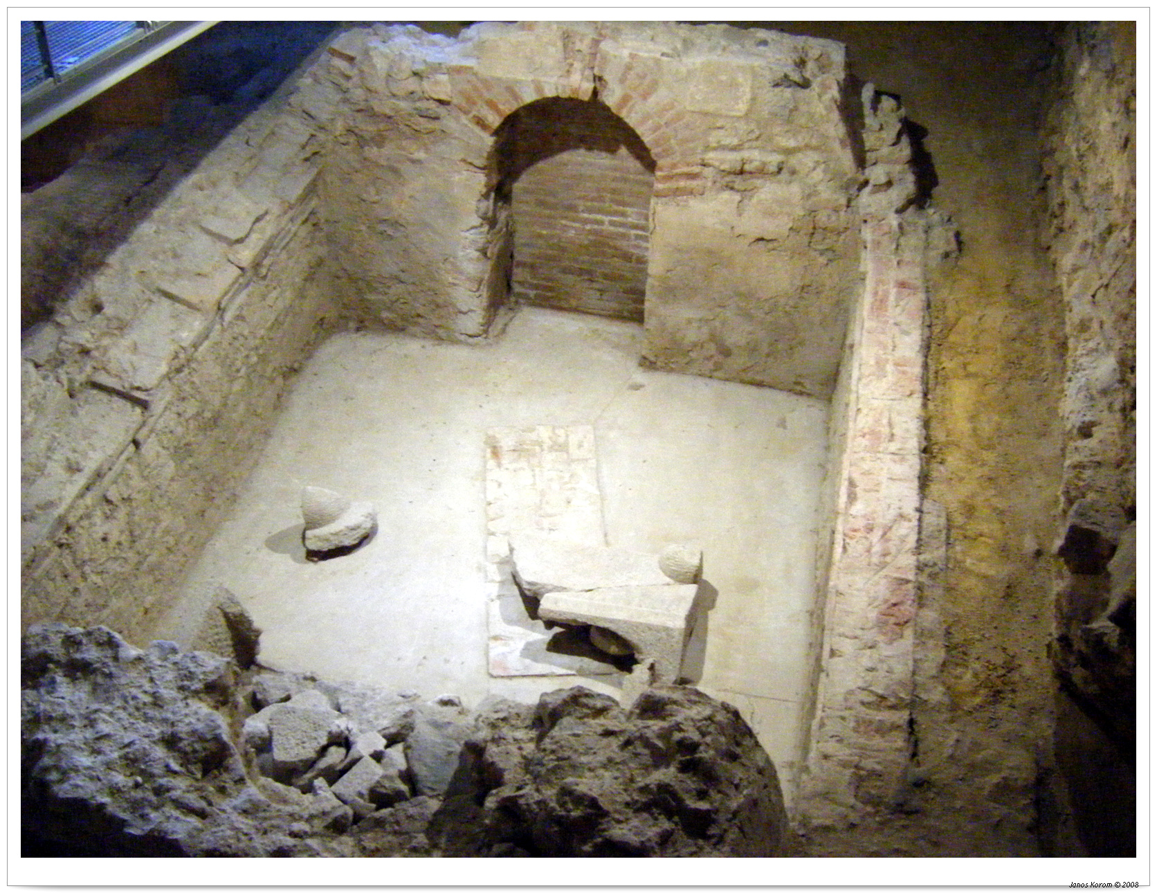 Tomb